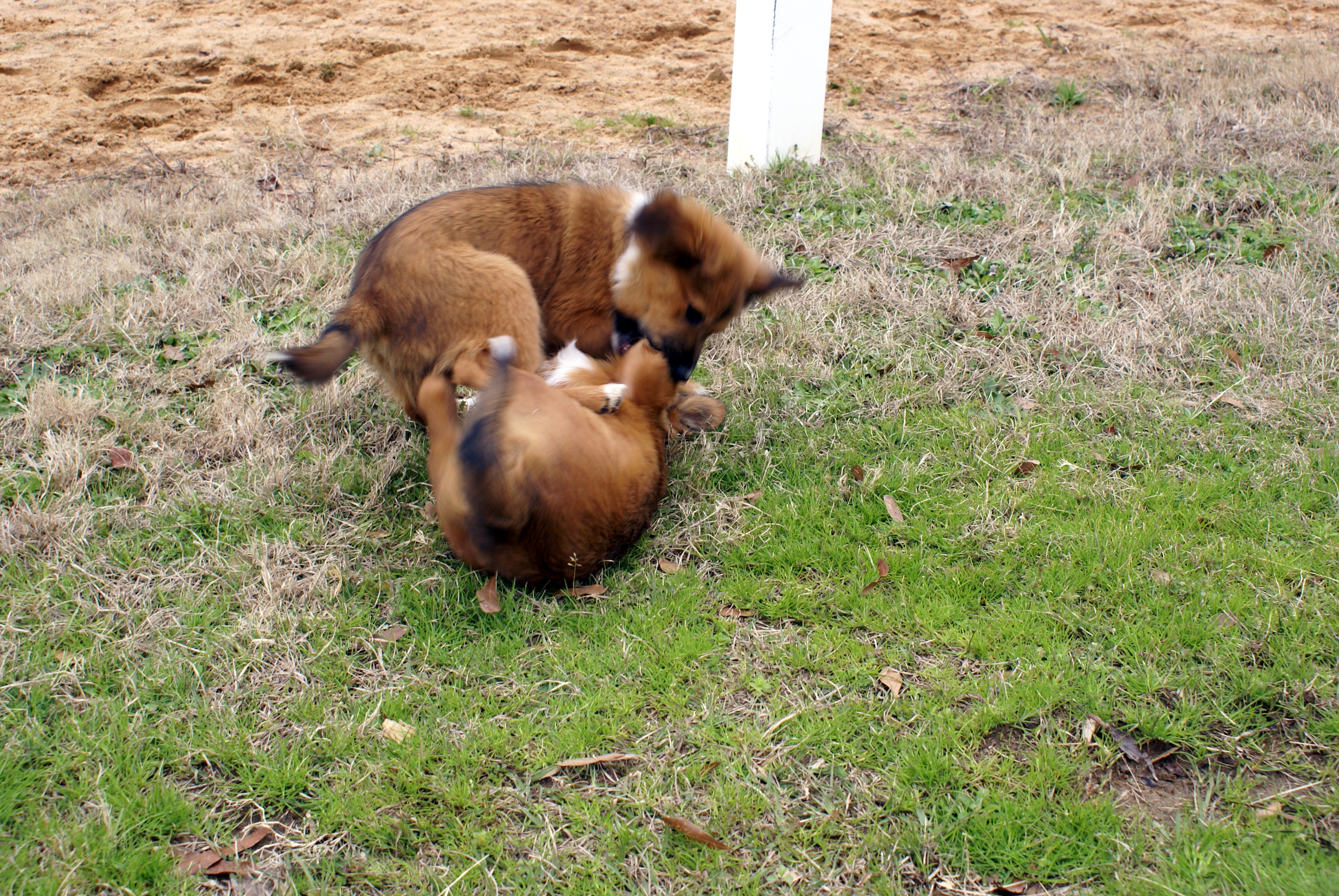 a fighting game